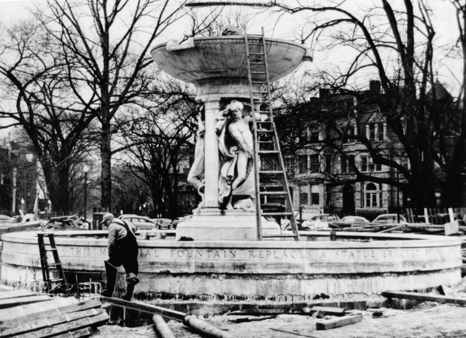 Installation of the Dupont Circle Fountain in Washington, D.C.